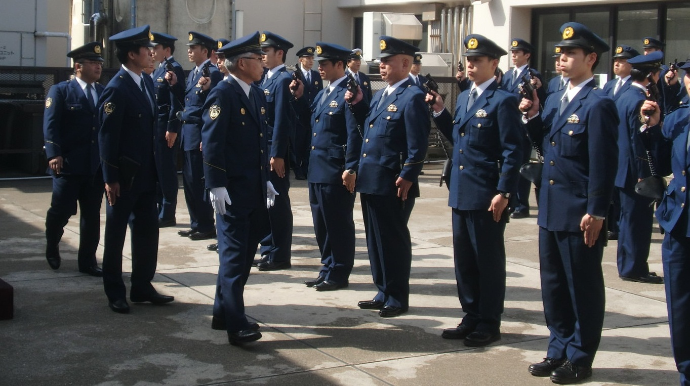 A superintendent reviewing firearms of his officers at West Kanazawa Police Station, Ishikawa Prefectural Police.